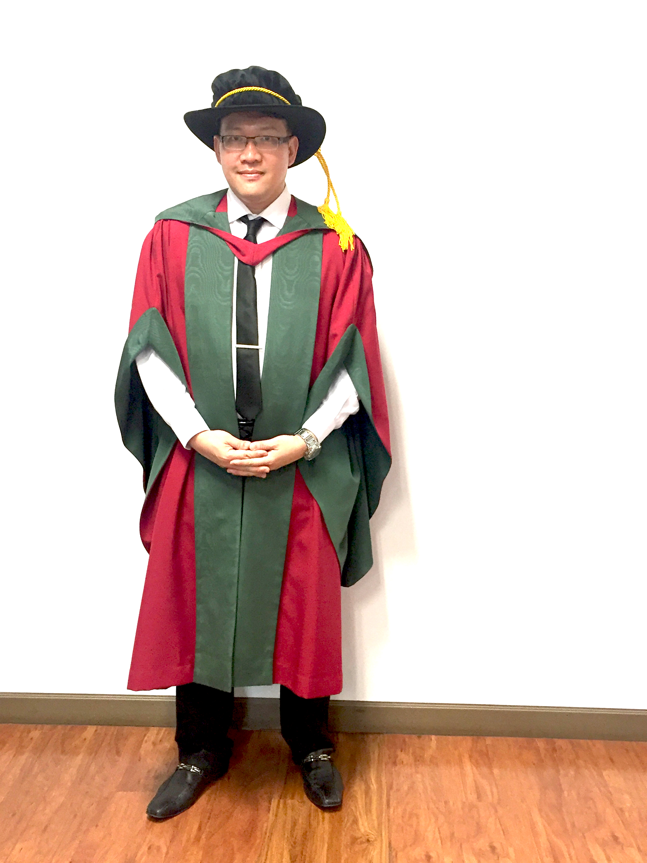 Profile photograph of Prof Dr. Siwatt